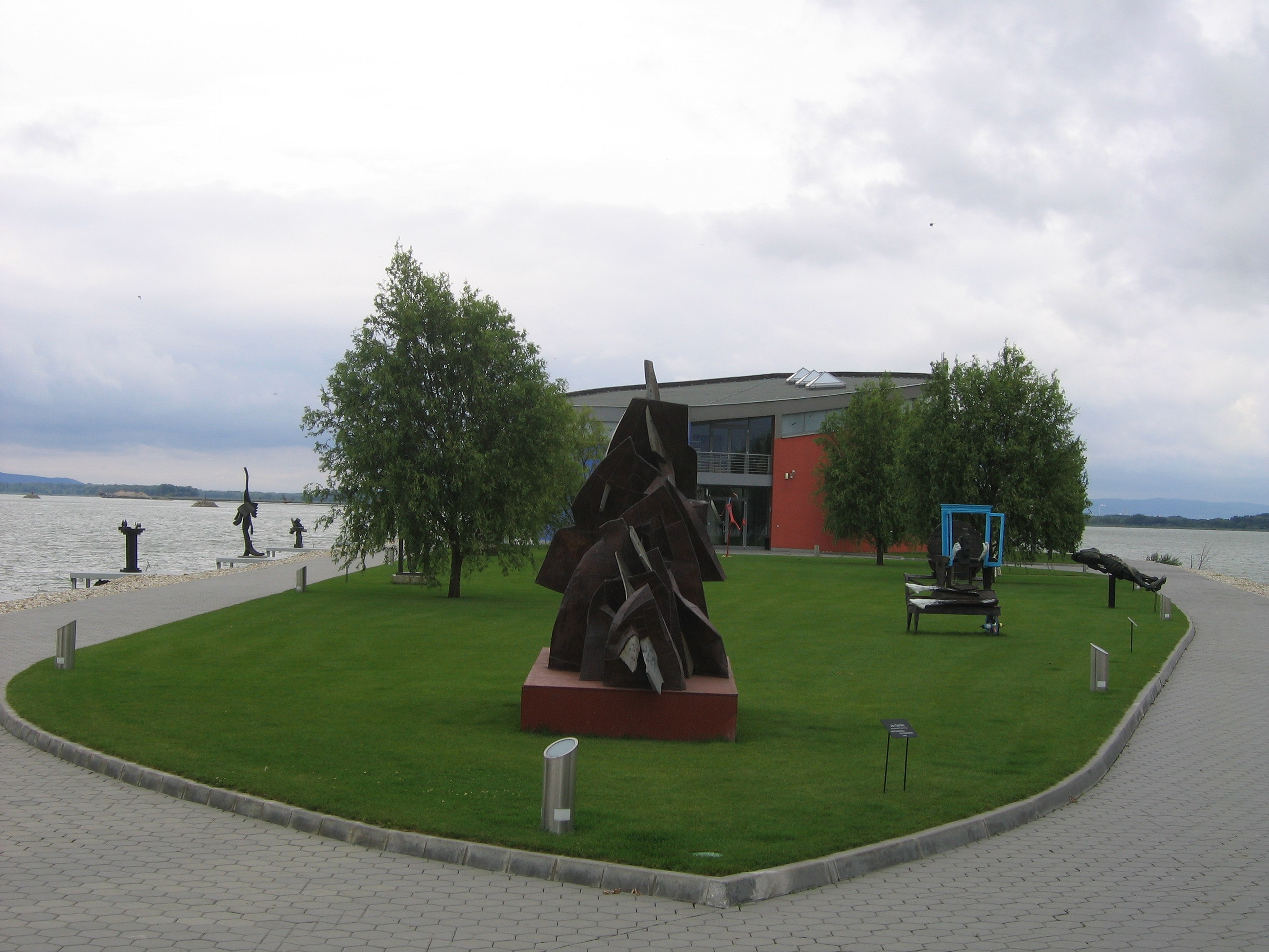 Danubian Meulensteen Art Museum, near Čunovo, Slovakia, geographical position 48°01' N 17'03'30" E